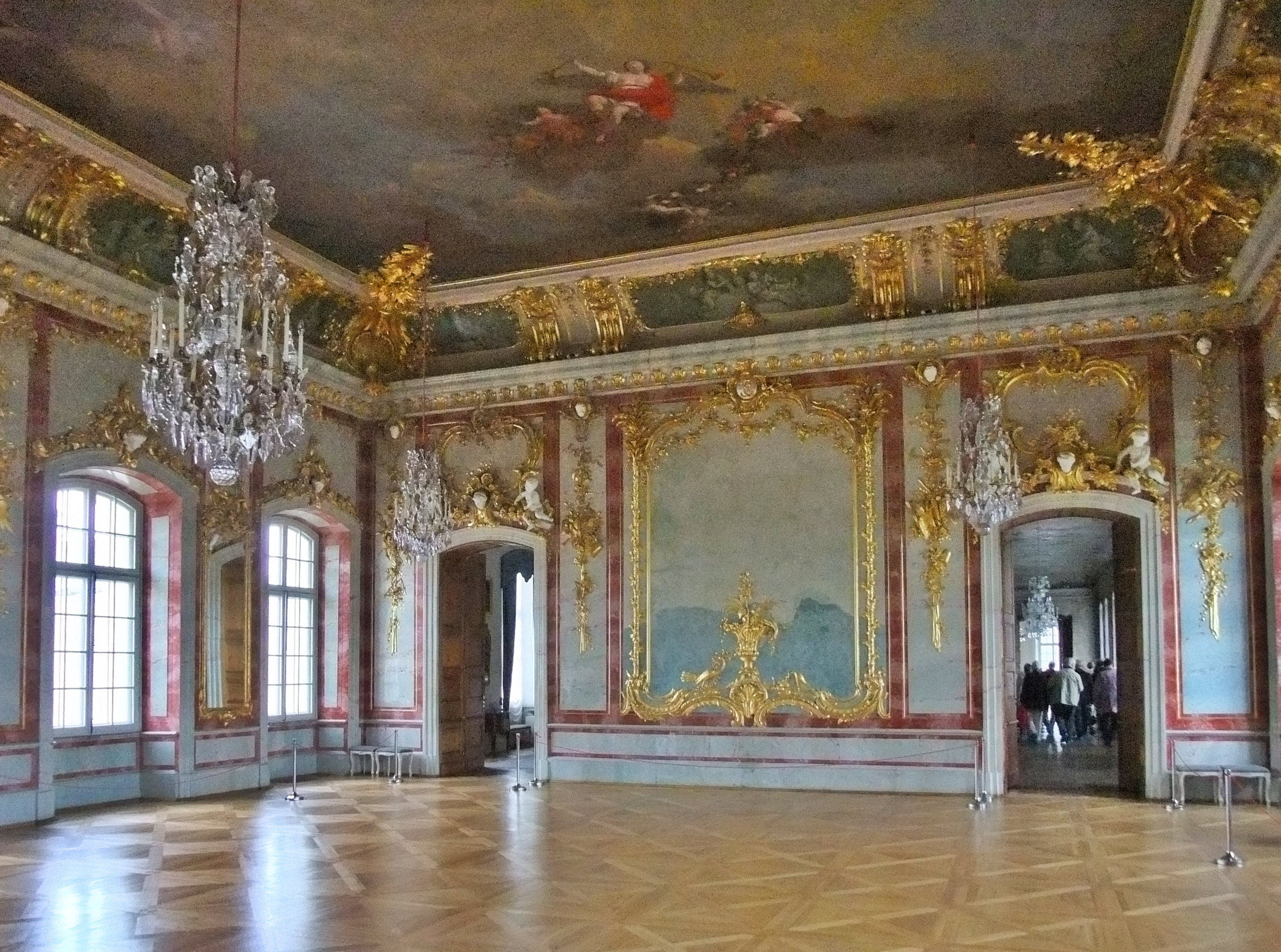 Interior of Rundale Palace, Latvia